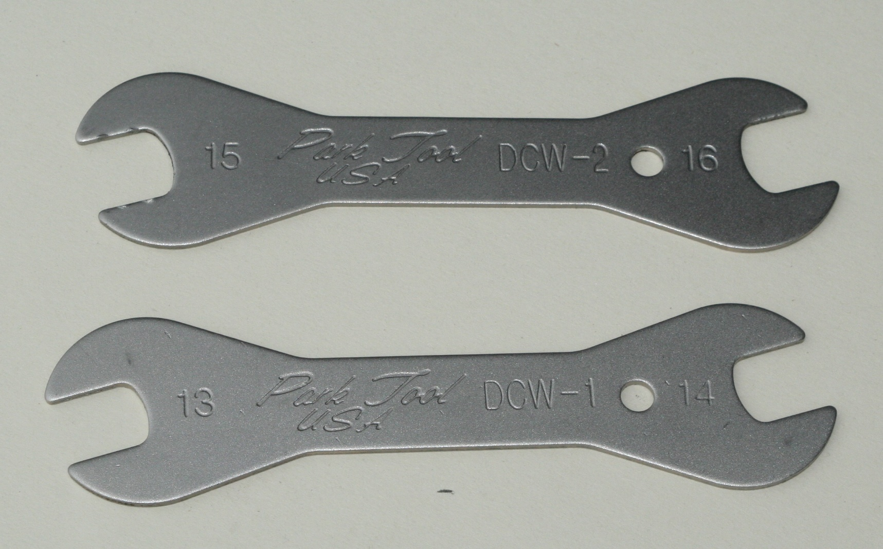 Cone wrenches (Park tools)